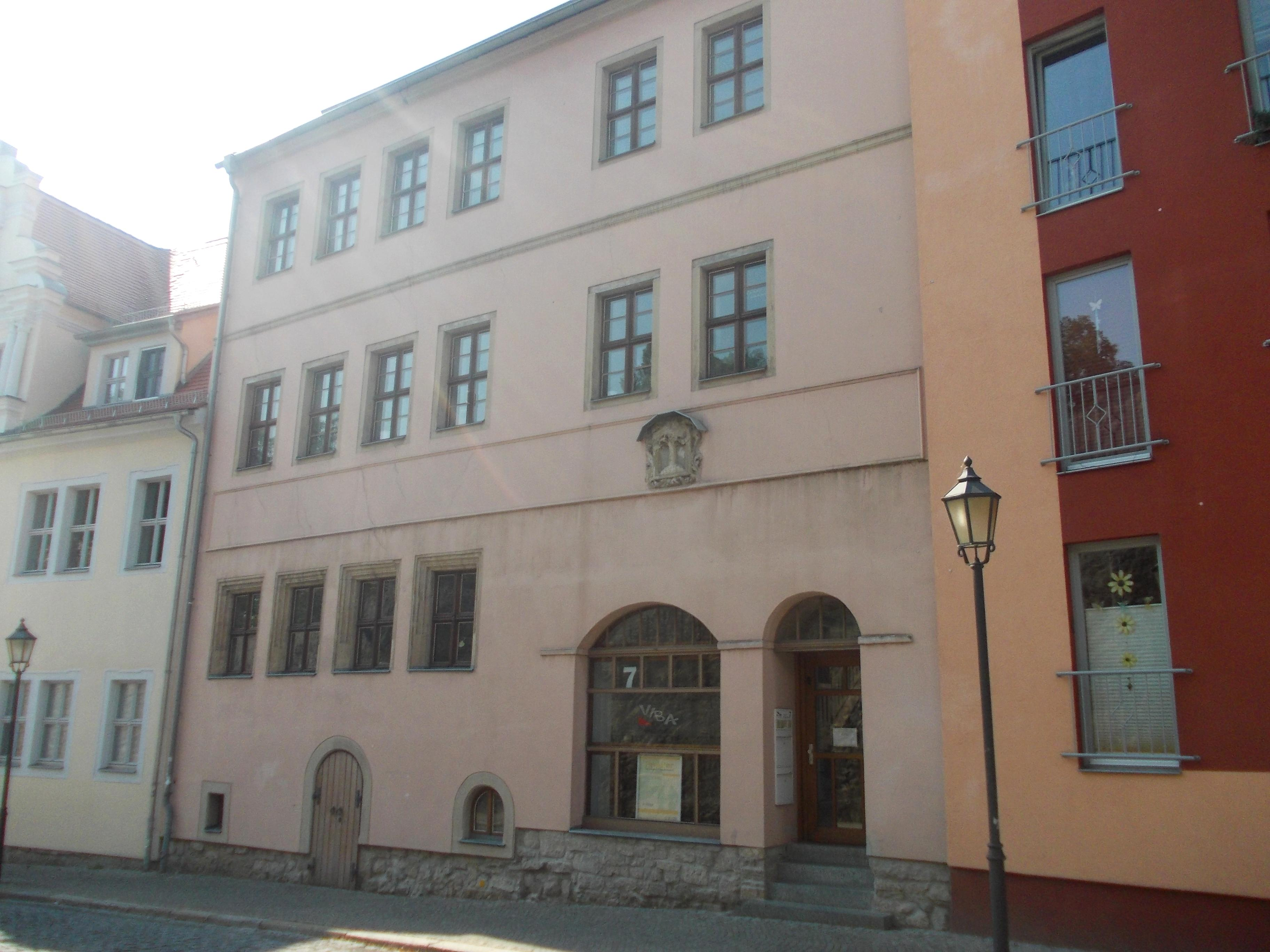 No. 7, Obere Burgstrasse in Merseburg (district: Saalekreis, Saxony-Anhalt)